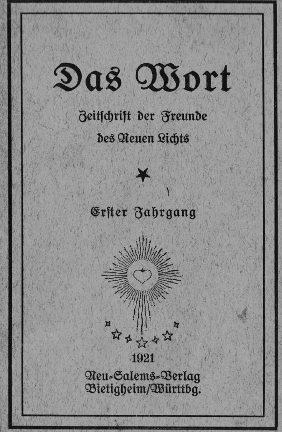 Front page of first booklet of "Das Wort" (German magazine of the Neu-Salems-Verlag)